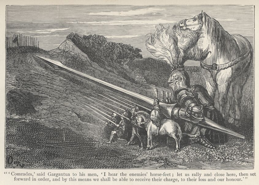 Illustration that appears in Chapter 1.XLIII of book 1 of Gargantua and Pantagruel by François Rabelais published in The Works of Rabelais, translated by Sir Thomas Urquhart of Cromarty and Peter Antony Motteux. Published in 1894.